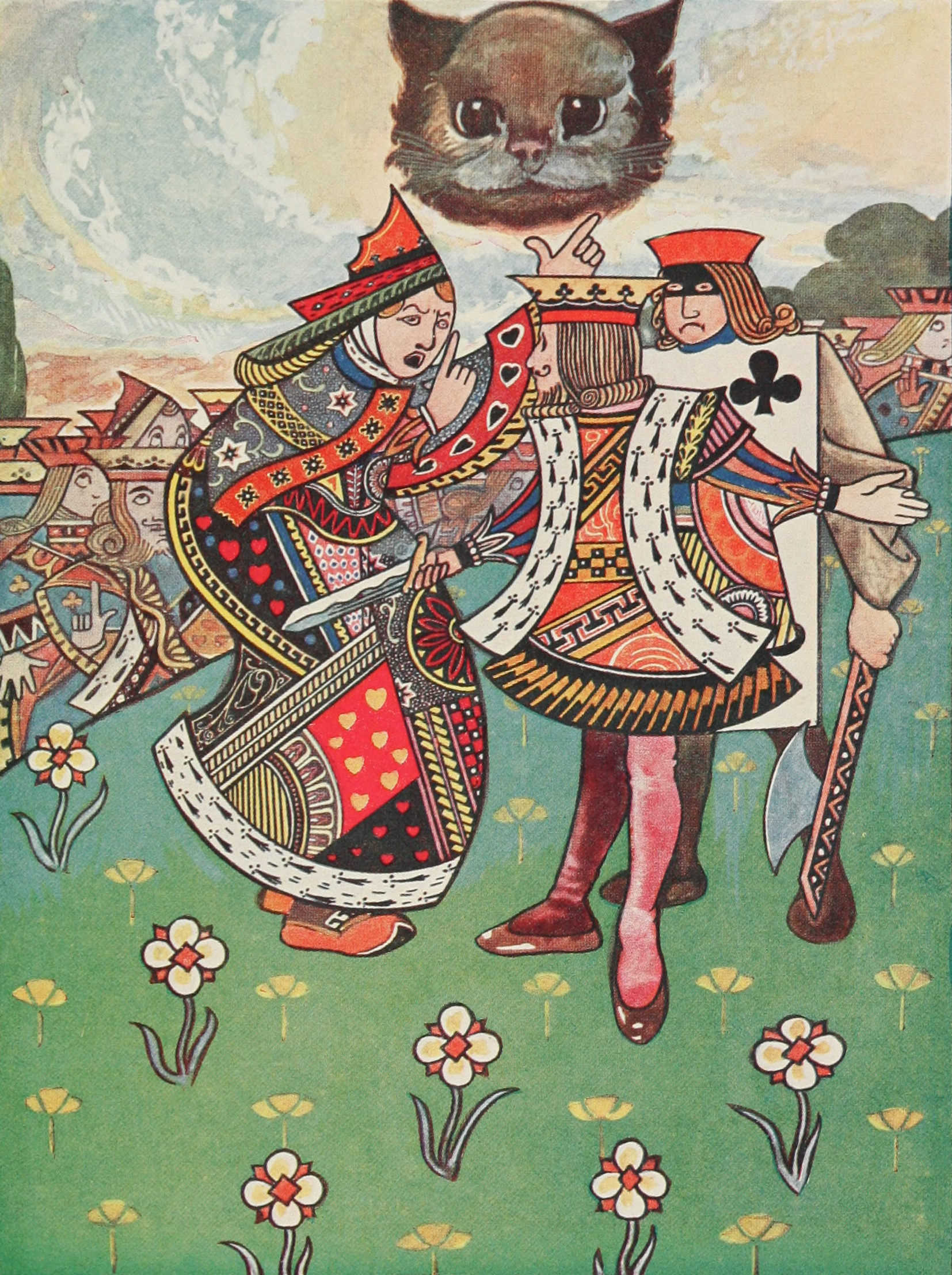 A coloured plate. Caption: There was a dispute going on between the executioner, the King, and the Queen.